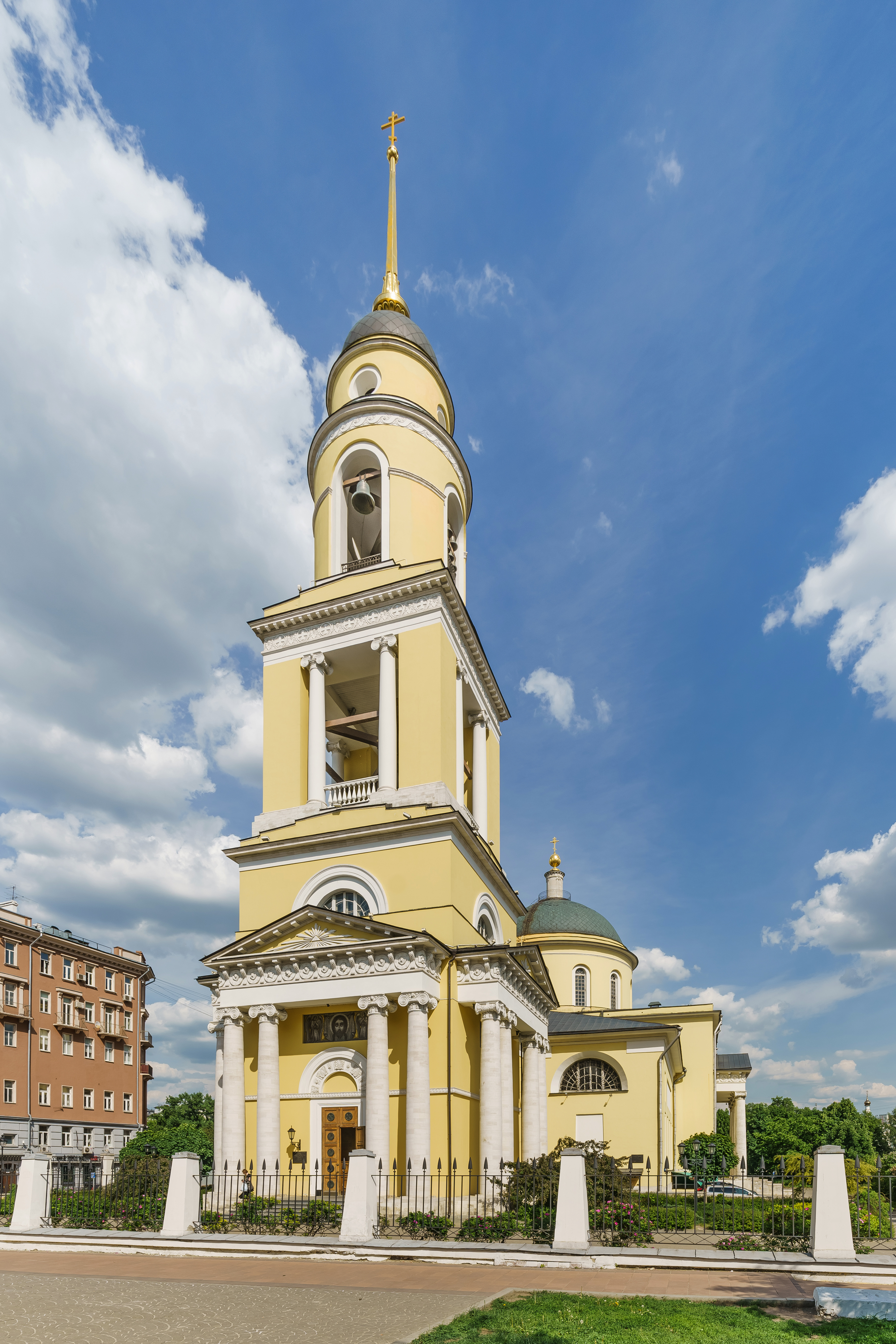 Great Ascension Church in Moscow, Russia